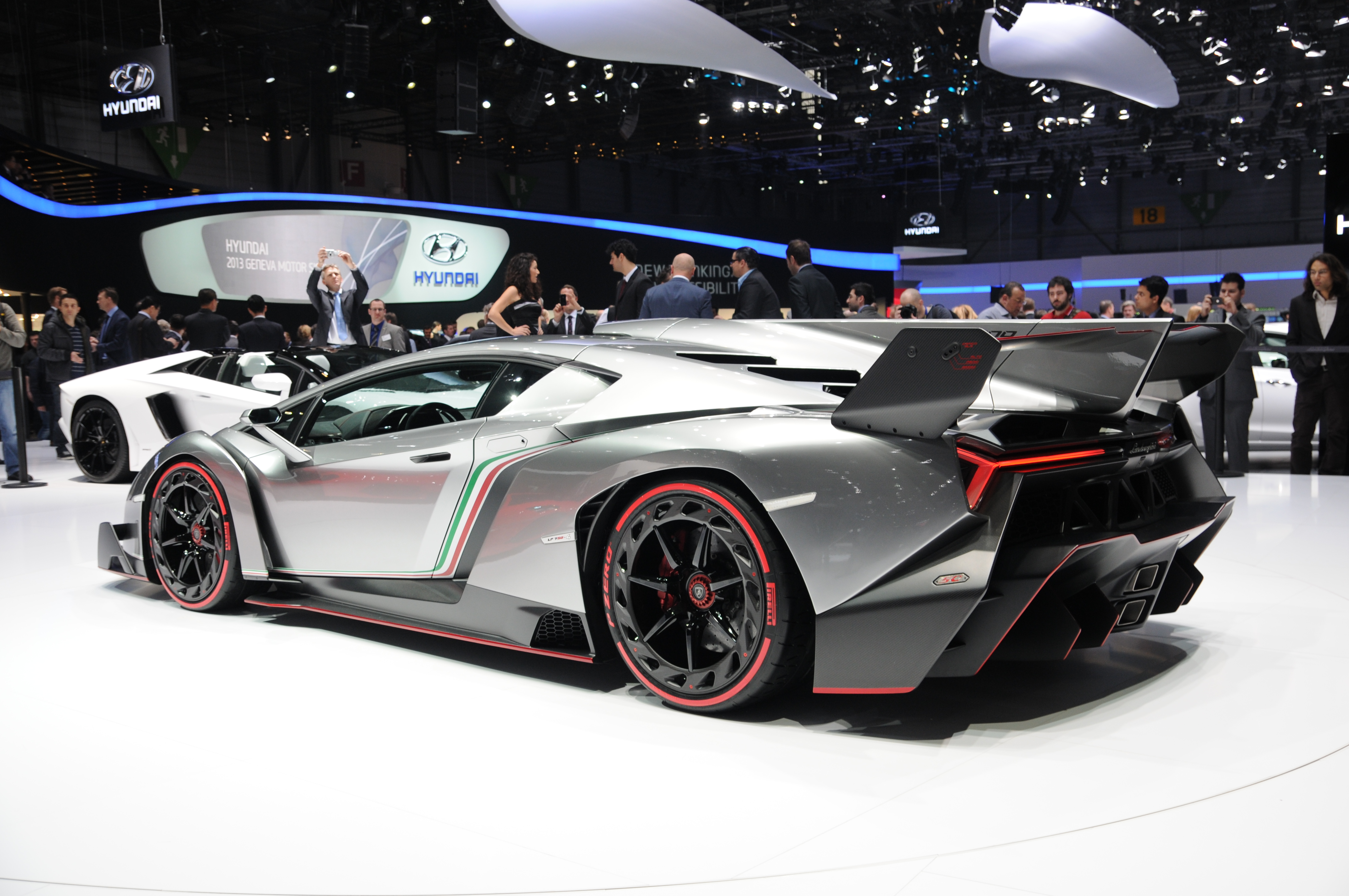 Geneva Motor Show 2013 (photos taken on the 1st press day)